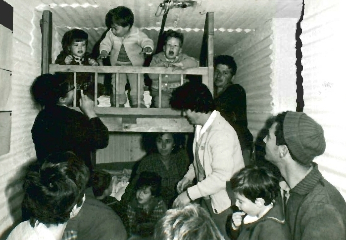 Children in the shelter at Kibbutz Dan in the Six-Day War